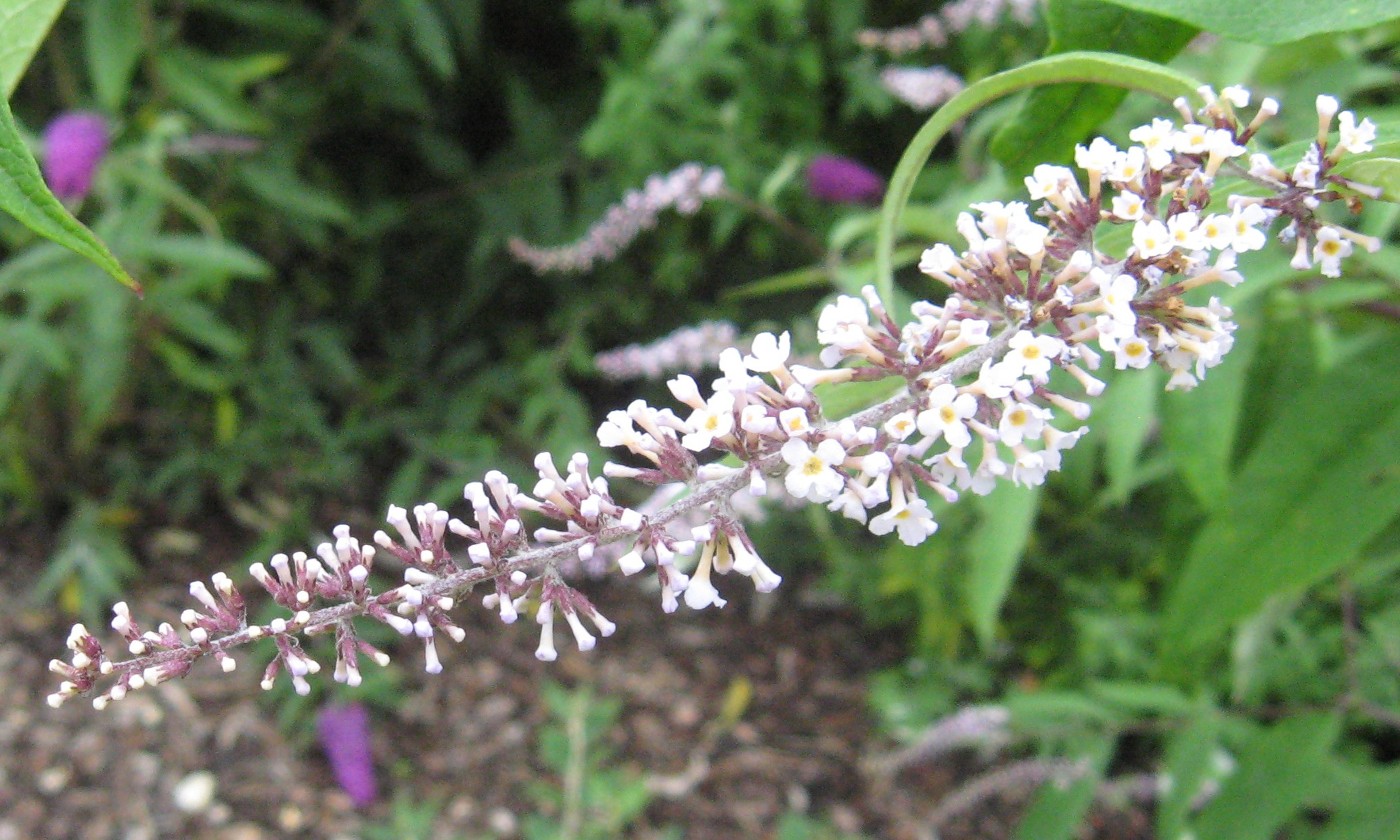 Photo of the inflorescence of Buddleja albiflora.